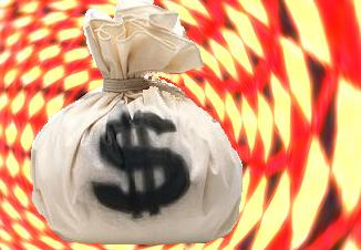 A bag of money, US dollars, spinning in a vortex of color, representing chicanery or misrepresentation of cost or economic information or data, but could represent outright financial fraud.